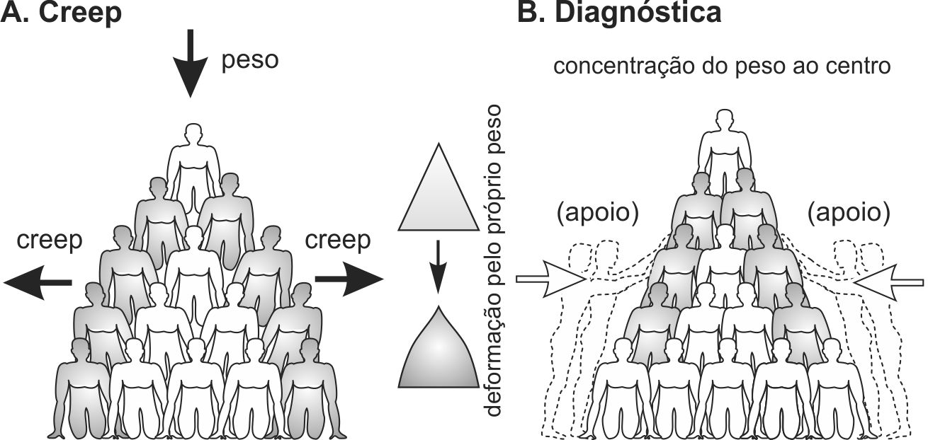 Human pyramid creep.